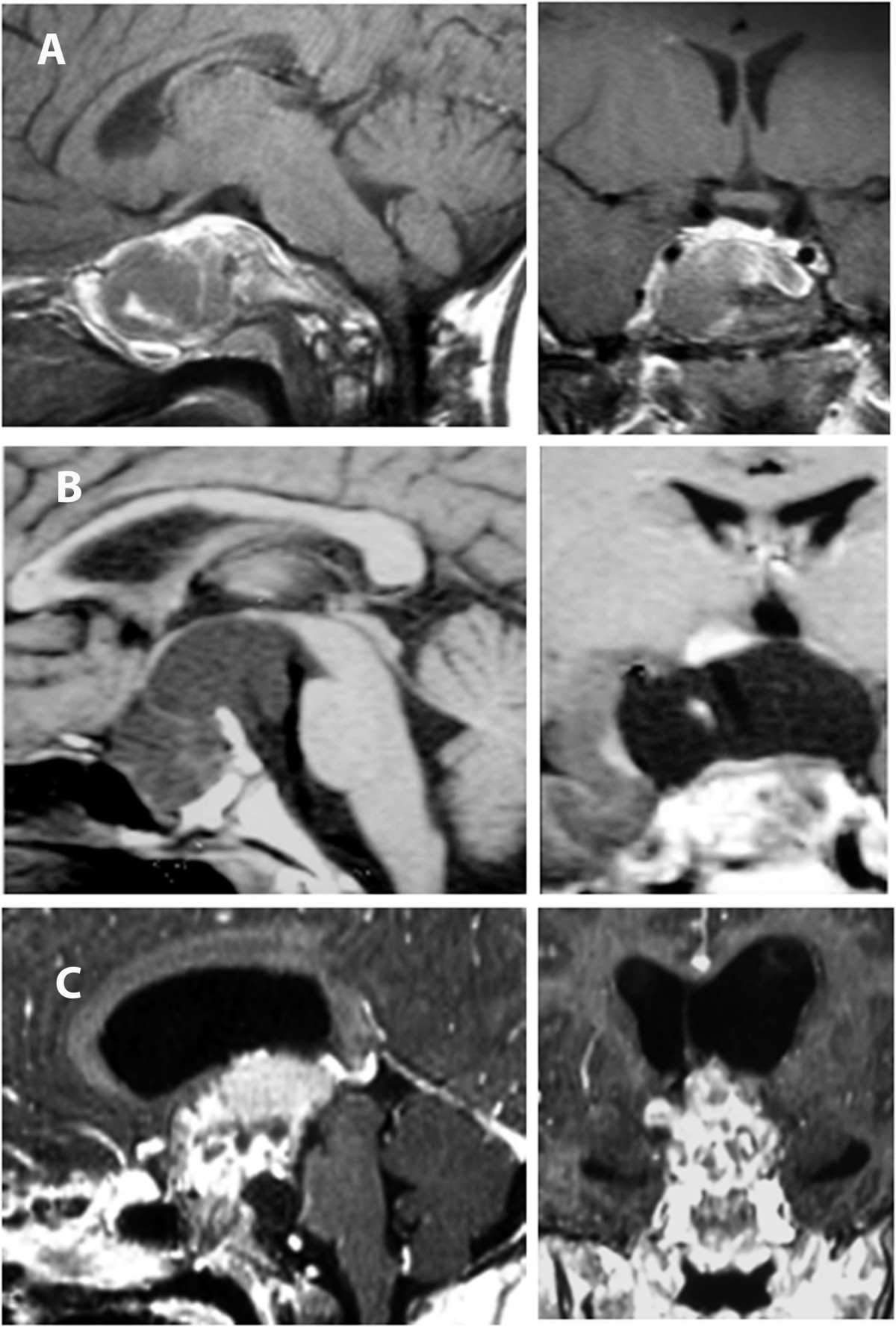 Enhanced T1 weighted MRI's of craniopharyngiomas. a. Apredominantly solid sellar/supra sellar tumour that is discrete fromthe hypothalamus (grade 0). b. A predominantly cystic sellar/suprasellar tumour that is distorting but not invading the hypothalamus (grade 1). c. A predominantly solid sellar/supra sellar tumour. The hypothalamus is not visible because of tumour invasion (grade 2).